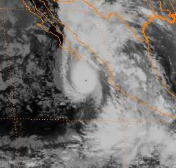 Hurricane Tico at peak strength on October 19, 1983